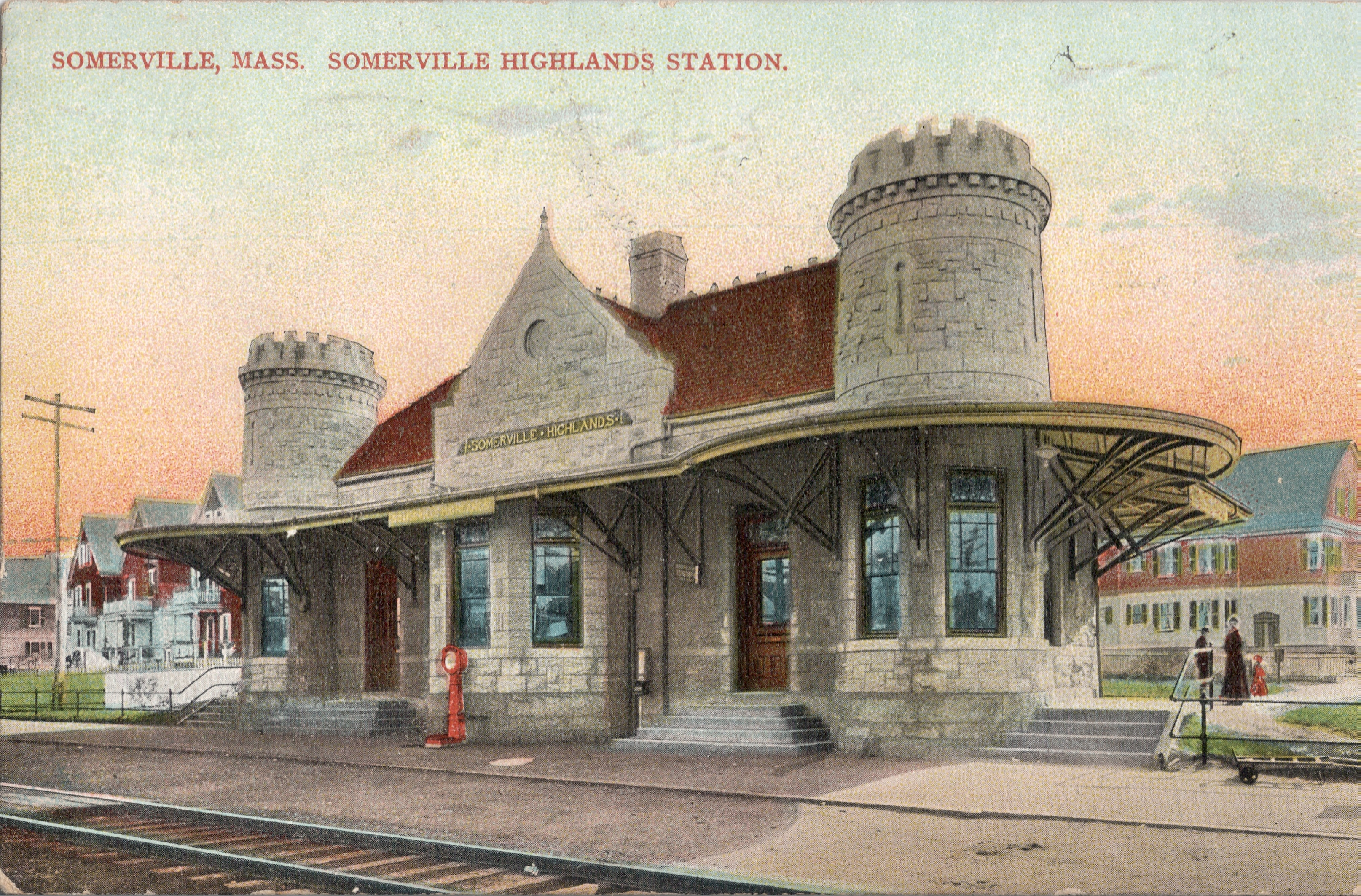 1907-postmarked postcard of Somerville Highlands station in Somerville, Massachusetts. The station was located at Hancock Street on the Fitchburg Cutoff (later the freight cutoff), originally part of the Lexington & West Cambridge Railroad